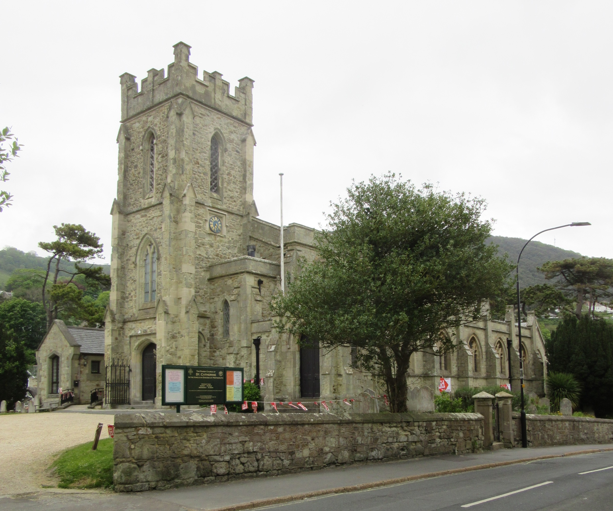 St Catherine's Church, Church Street, Ventnor, Isle of Wight, England. An Anglican parish church in the town of Ventnor.